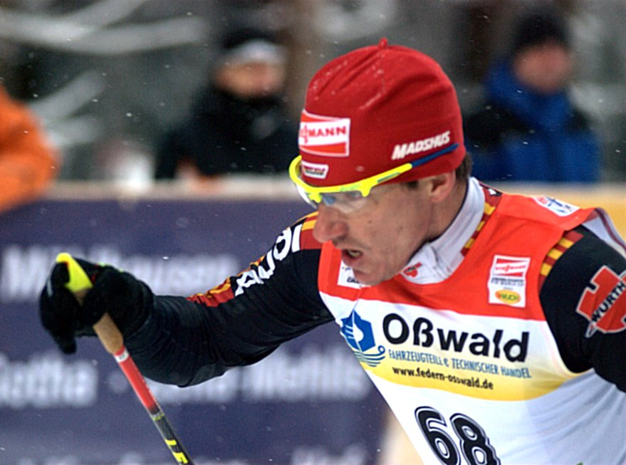 René Sommerfeldt at the Tour de Ski 2010 in Oberhof